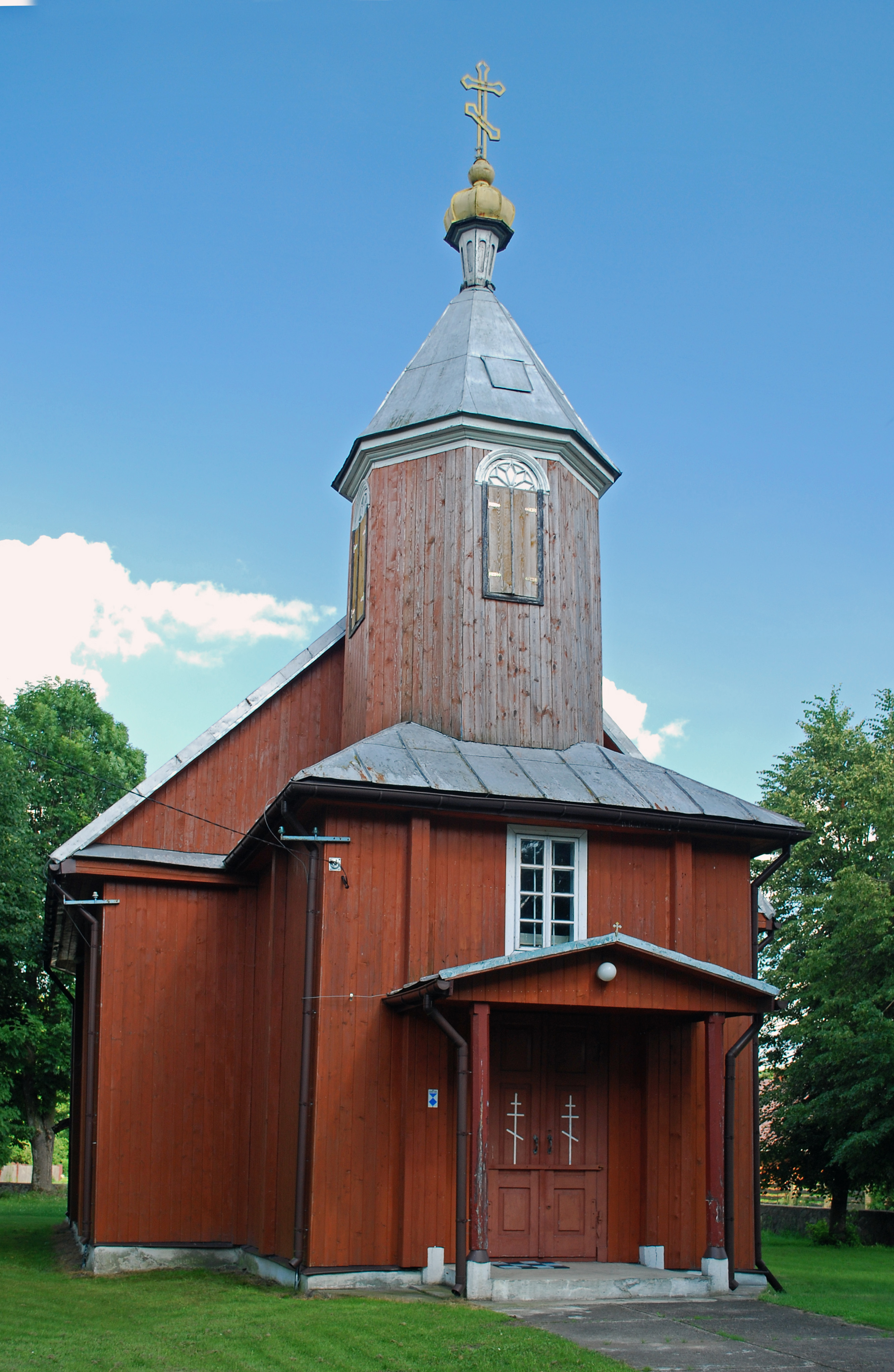 This photo from Podlaskie Voievodeship was taken during Polish Wikiexpedition 2009 set up by Wikimedia Polska Association. The making of this document was supported by Wikimedia Polska. Cerkiew w Topolanach, województwo podlaskie.